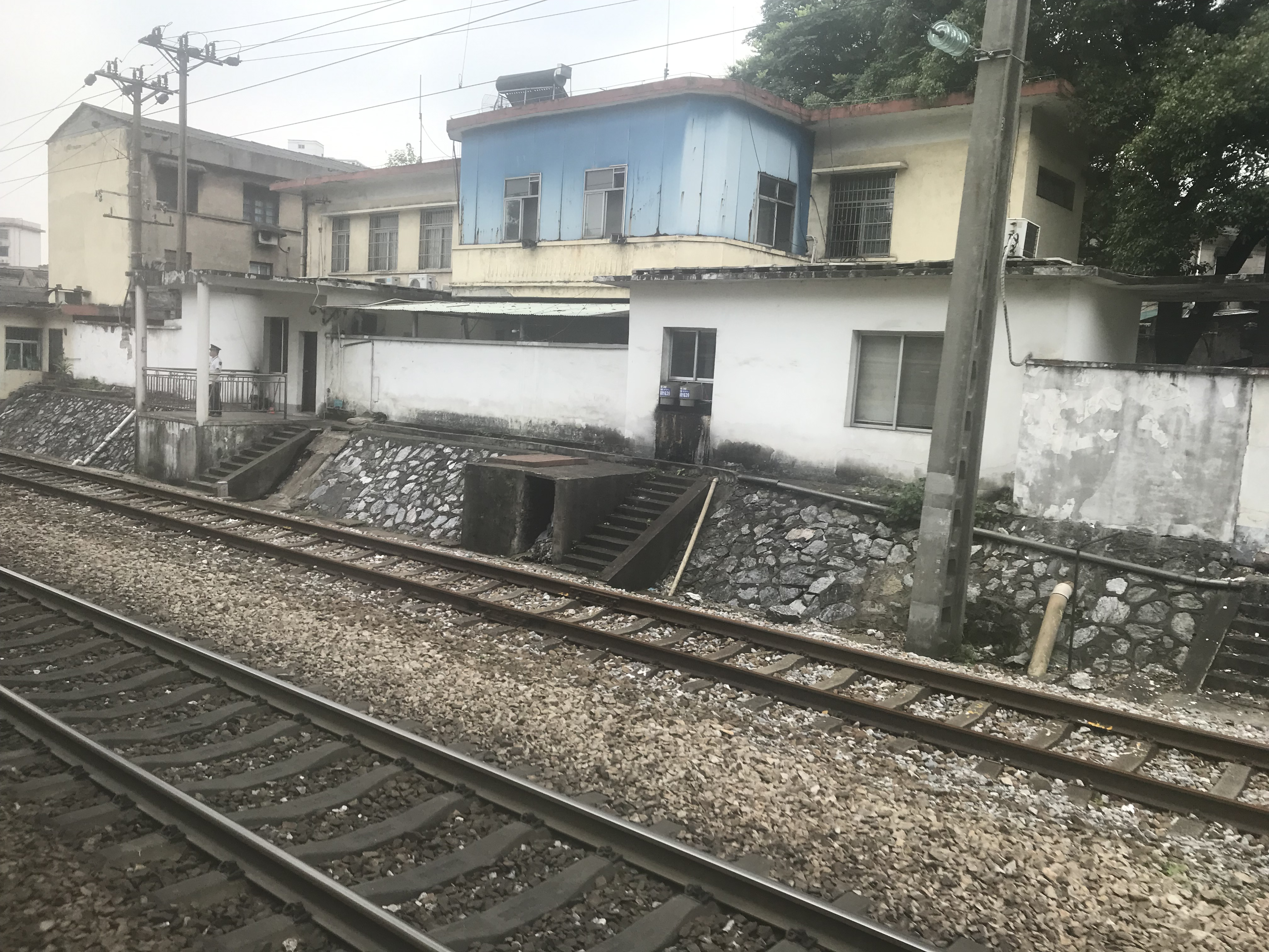 201906 Station Building of Simaochong